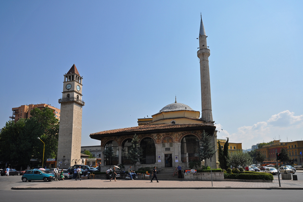 Photo of the Et'hem Bey Mosque and clock tower in the centre of teh capital of Albania, Tirana.